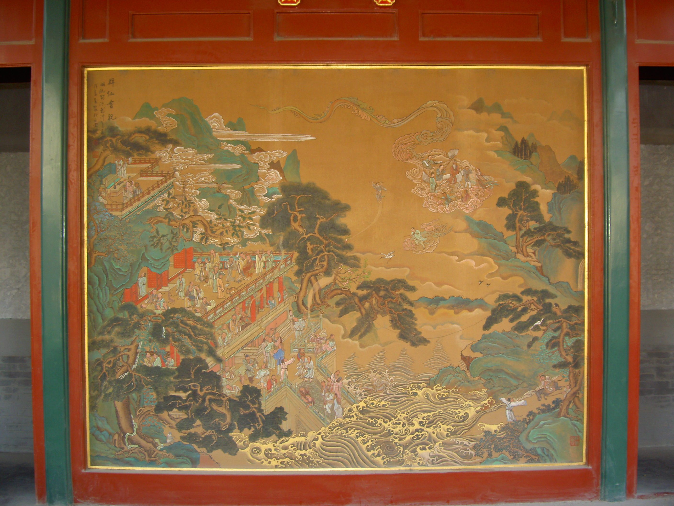 Artwork on the corridors of the White Cloud Temple in Beijing